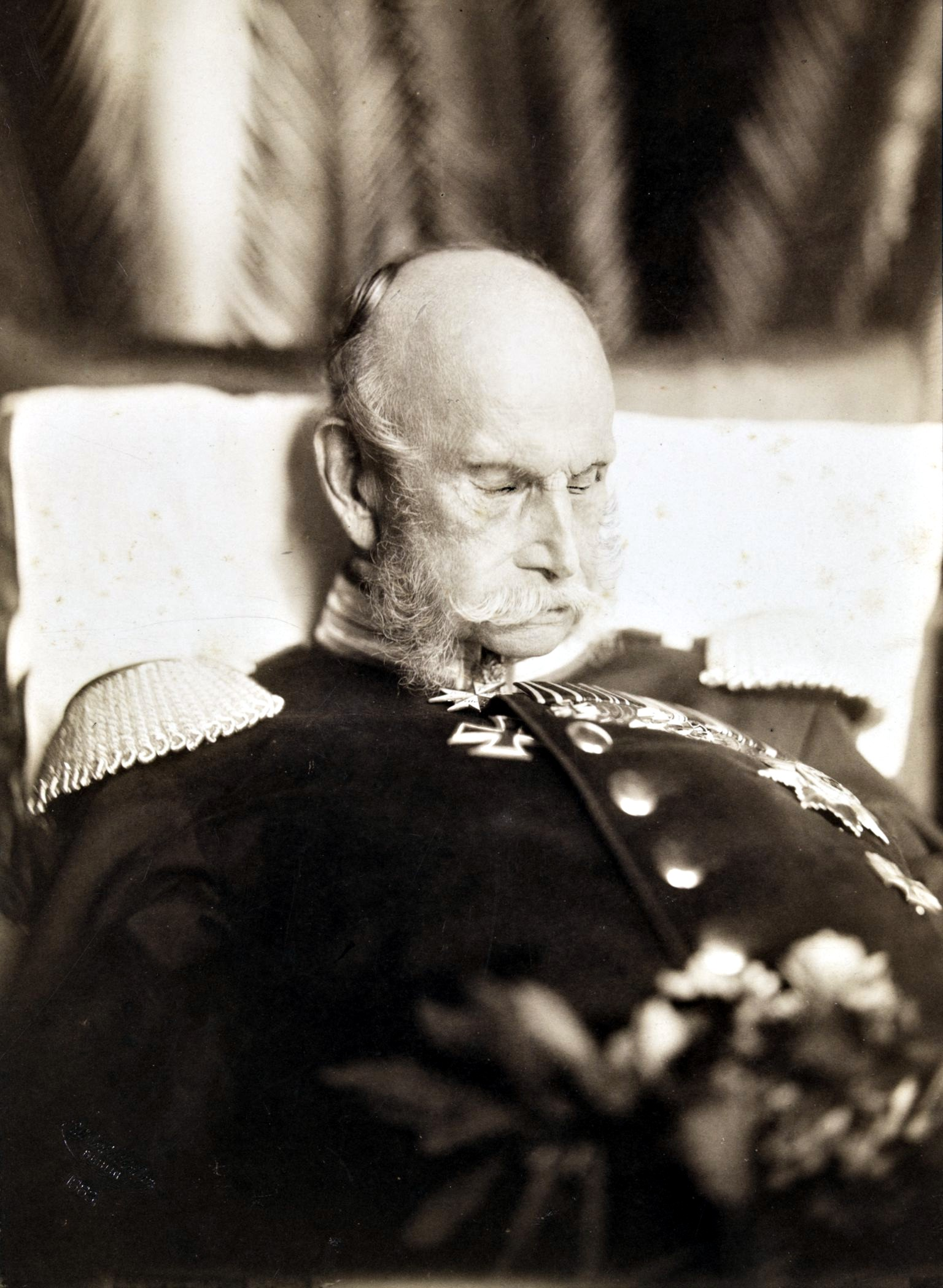 Post-mortem portrait of Kaiser Wilhelm I, 1888.Photo pasted on black paper, gilt edges, with a post-mortem portrait lying in Emperor Wilhelm I. The Emperor is the head against a pillow put up and is dressed in uniforms which several awards, including the breast star of the Order of the Black Eagle. On the abdomen, below the picture, is a laurel wreath. The Emperor is probably lying in the (old) Berlin Cathedral.